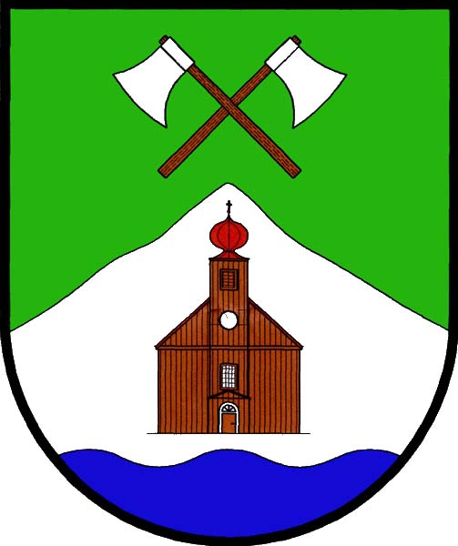 Municipal coat of arms of Malá Úpa village, Trutnov District, Czech Republic.